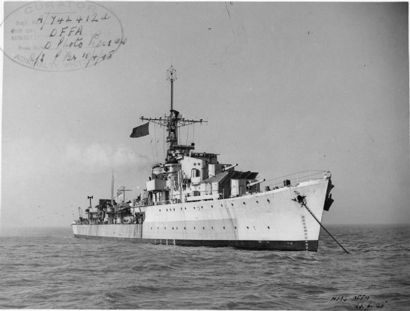 British destroyer HMS OFFA at anchor.